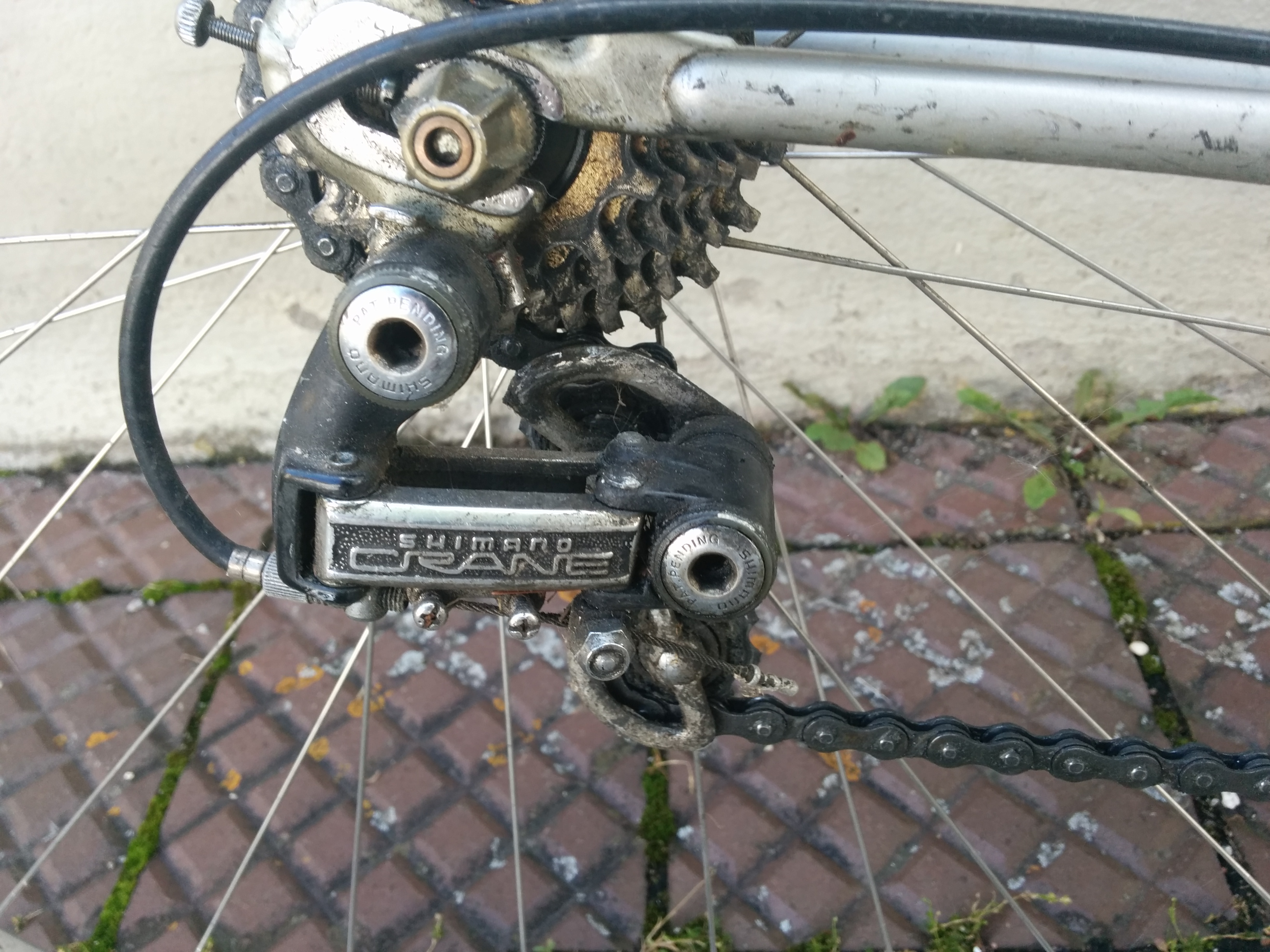 Shimano-Dura-Ace, first generations with "CRANE"-label mounted on a PUCH bike